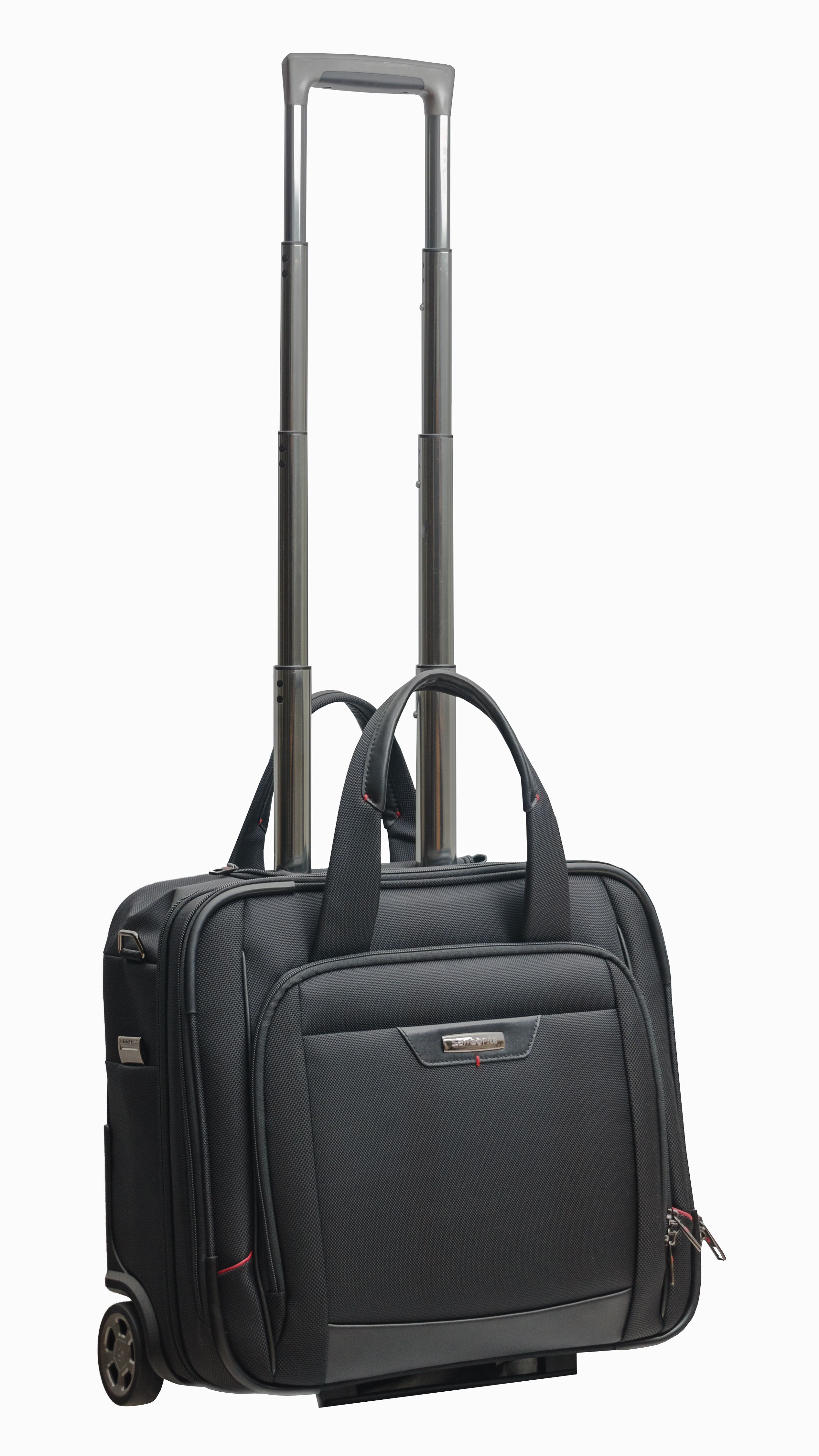 Samsonite Pro-DLX 4 Rolling Tote 16.4 Inch Black